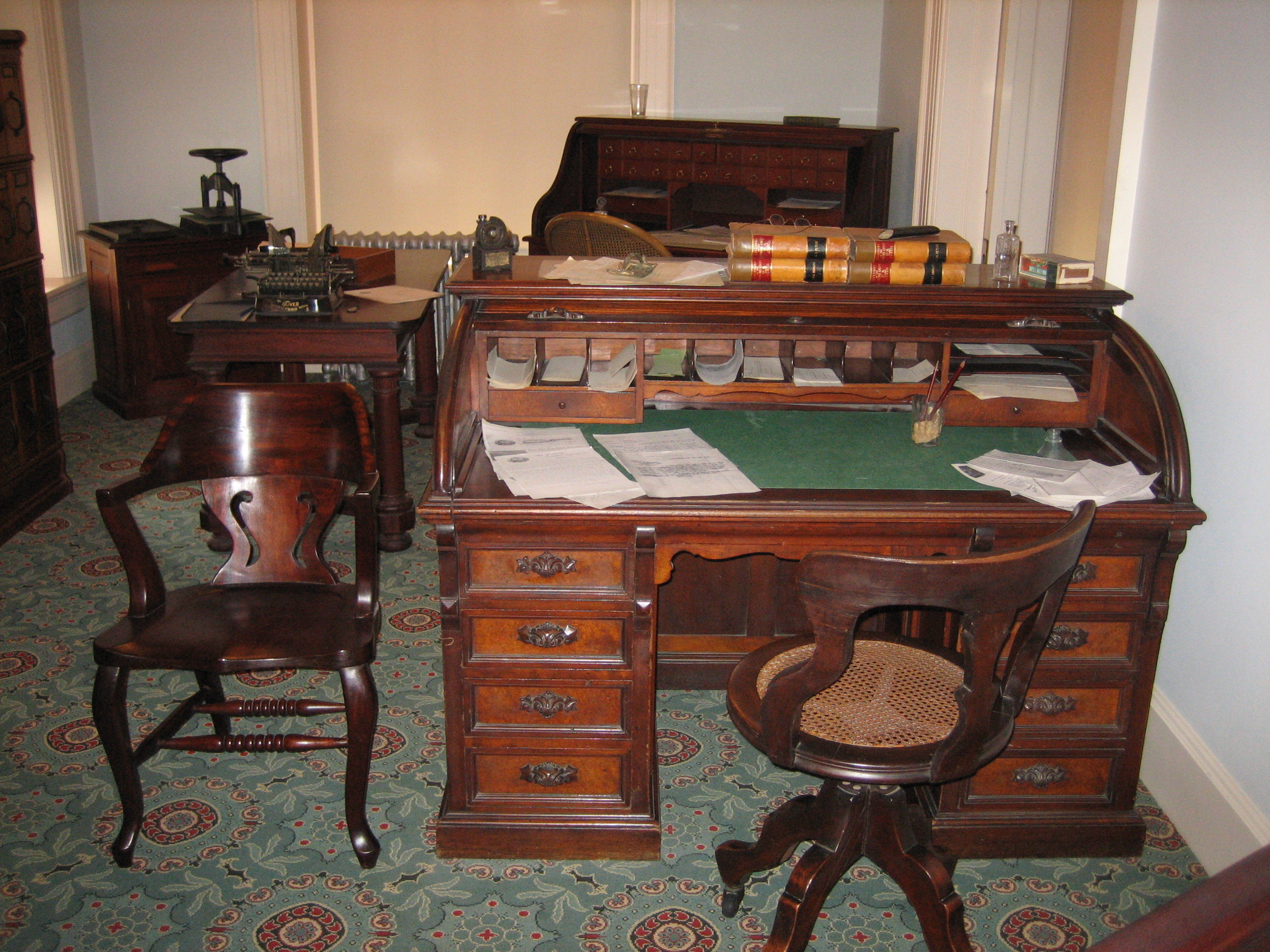 Old Florida State Capitol buildings, Tallahassee, now a museum. Former office of the Governor's secretary, restored to 1903 configuration.